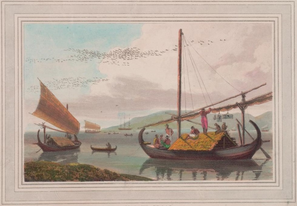 Two Malay perahu (both of mayang type). There are several boats in the background, an European ship, and a perahu with Dutch flag.